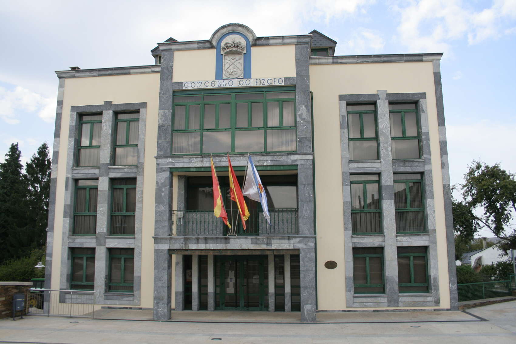 Town Hall in O Incio (Spain)